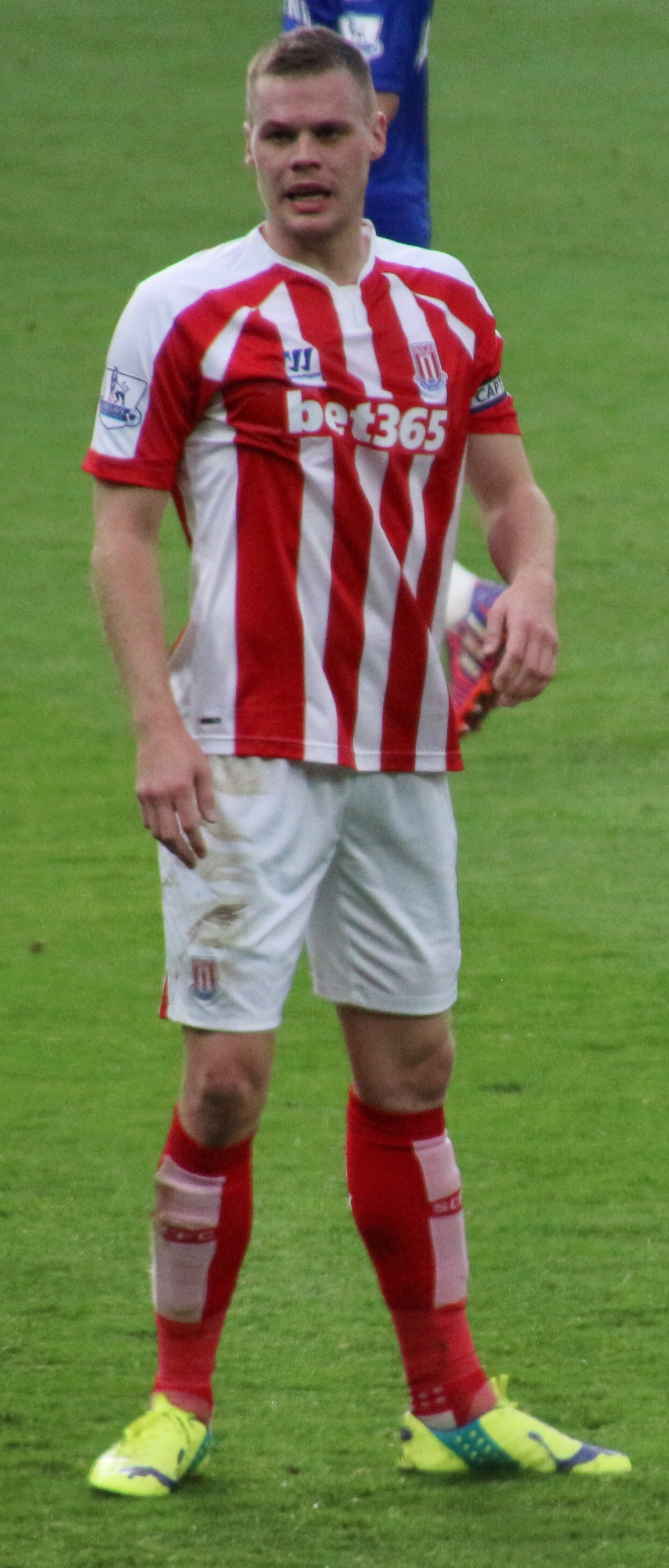 Ryan Shawcross playing for Stoke City in 2015